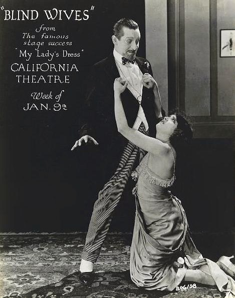 Marc McDermott and Estelle Taylor in the film Blind Wives (1920) - promotional poster